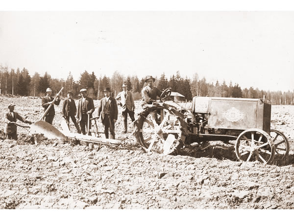 Kullervo tractor, Pekkala estate, Ruovesi, Finland.